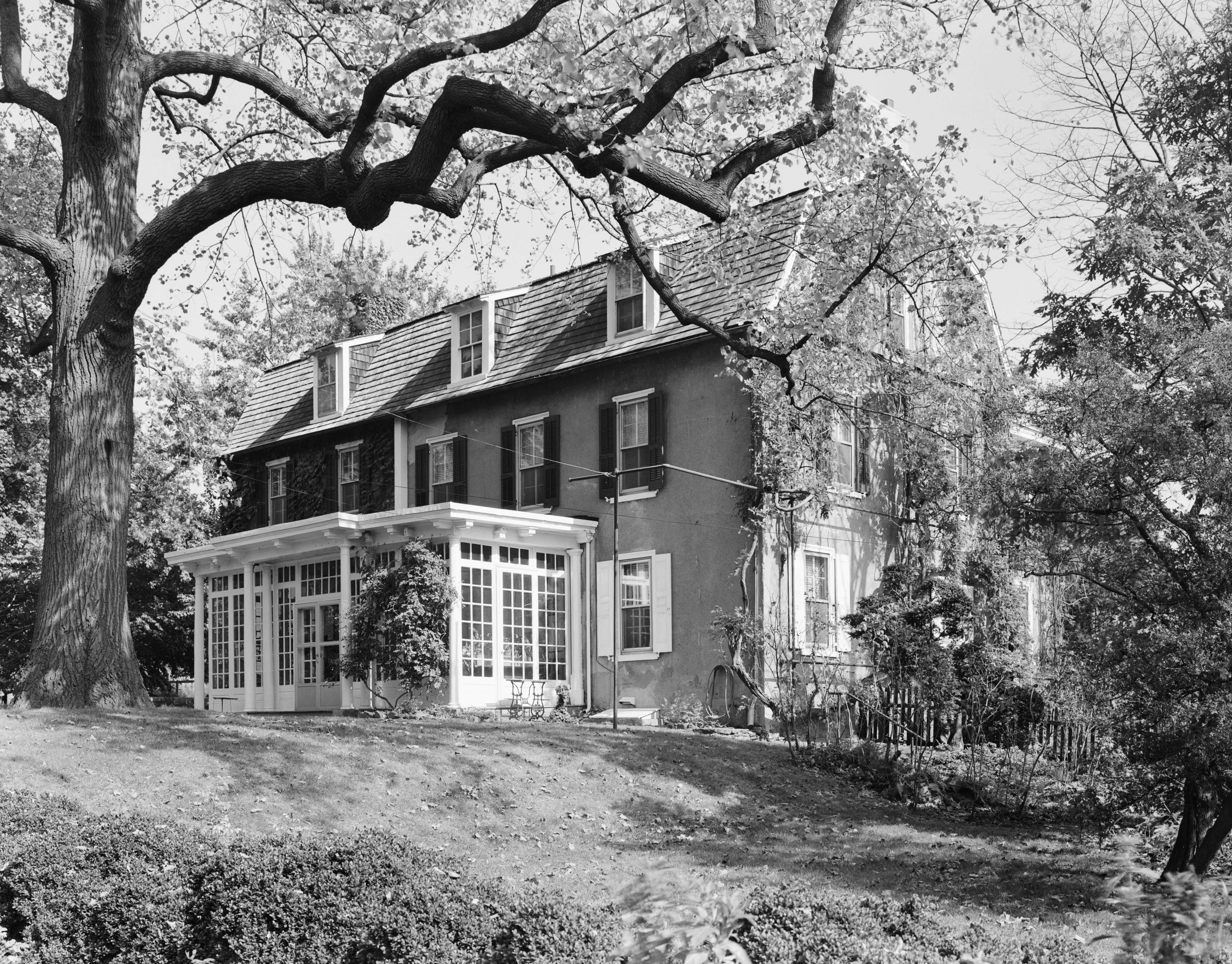 Charles Willson Peale House, 5500 North Twentieth Street, Philadelphia (Philadelphia County, Pennsylvania) (cropped).